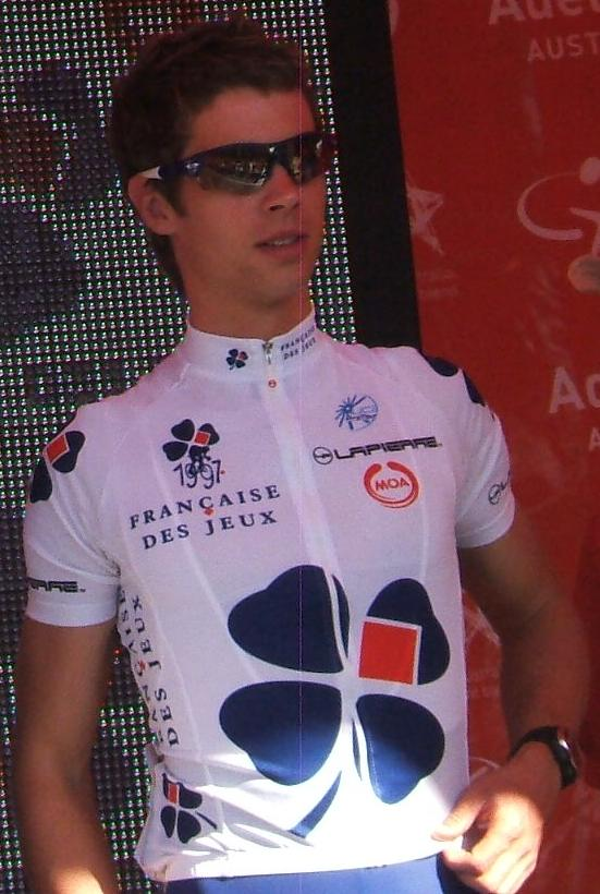 Named cyclist at the en:2009 Tour Down Under team presentation